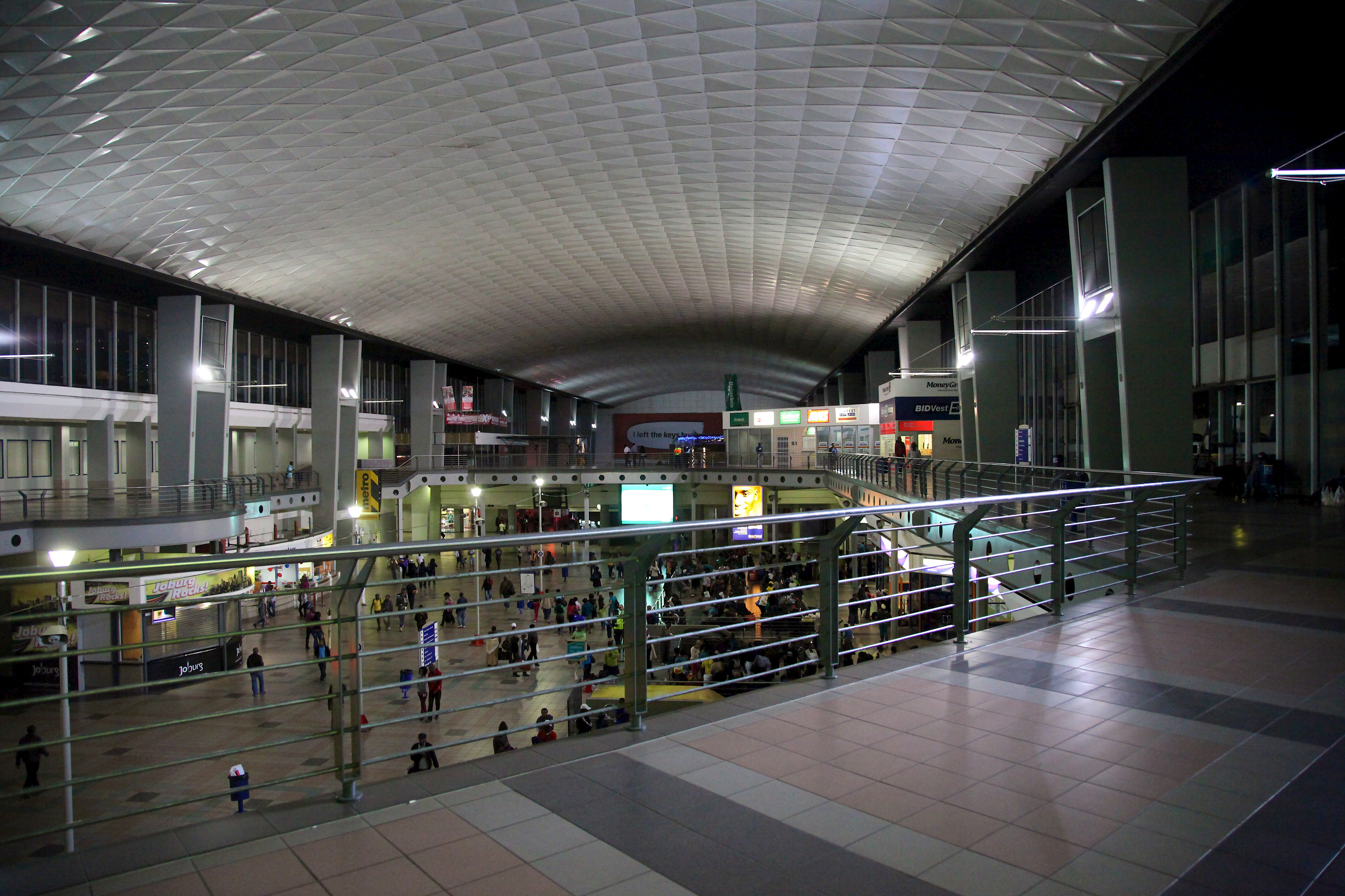 Inside Johannesburg Railway Station